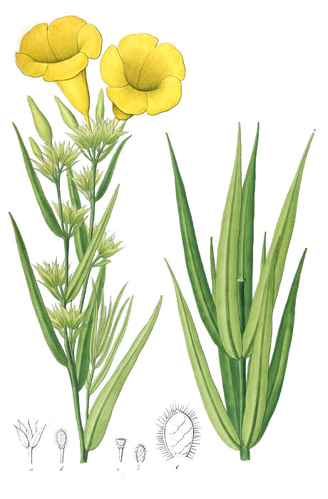 Illustration of Allamanda angustifolia 59